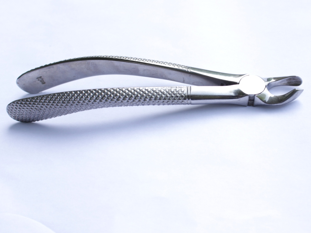 Dental extracting forceps for upper jaw left molar teeth removing